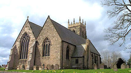 St Columba.'s parish church, Topcliffe, North Yorkshire, seen from the northeast